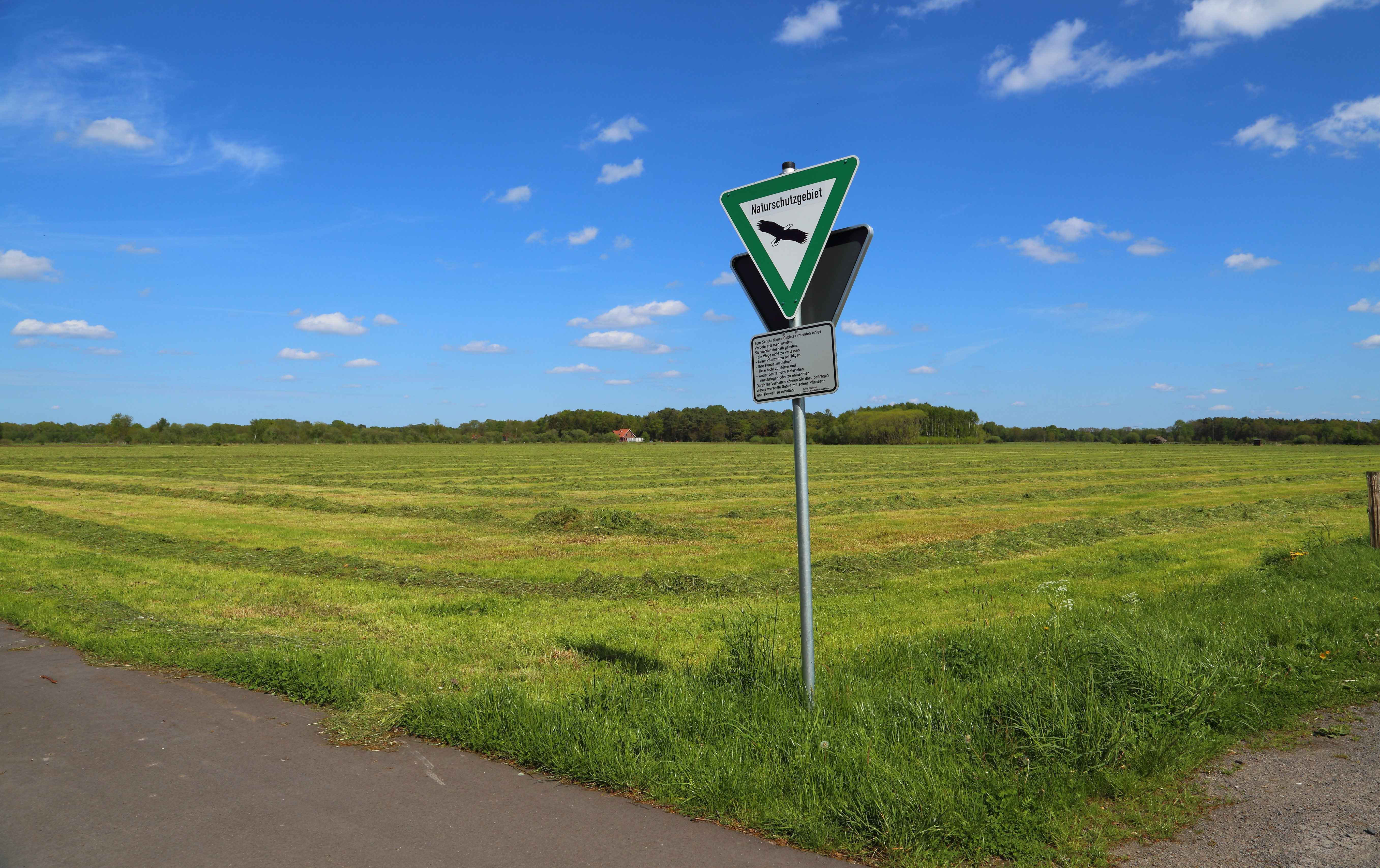 The southwestern edge of the nature reserve „Wehrstroot“ (Naturschutzgebiet Wehrstroot) near Hopsten-Schale, Kreis Steinfurt, North Rhine-Westphalia, Germany.